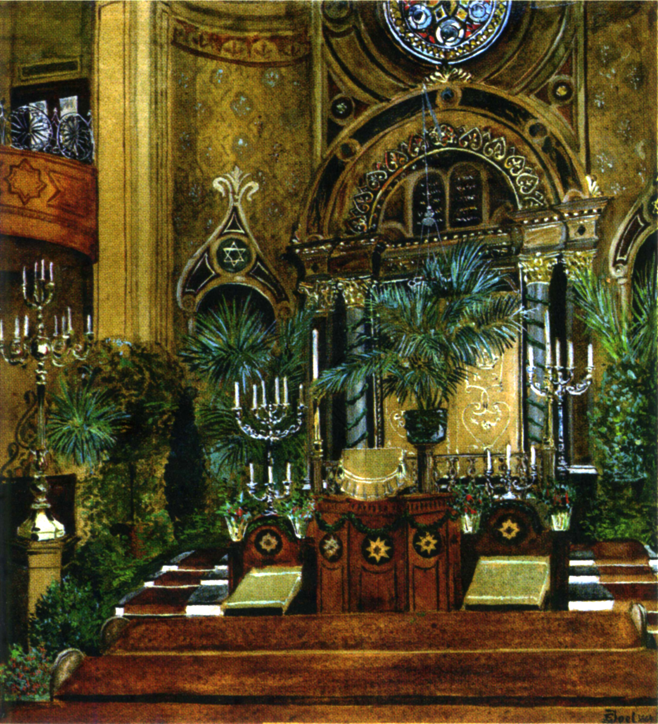 Interior of the synagogue in den Kohlhoefen, Hamburg, 1920.